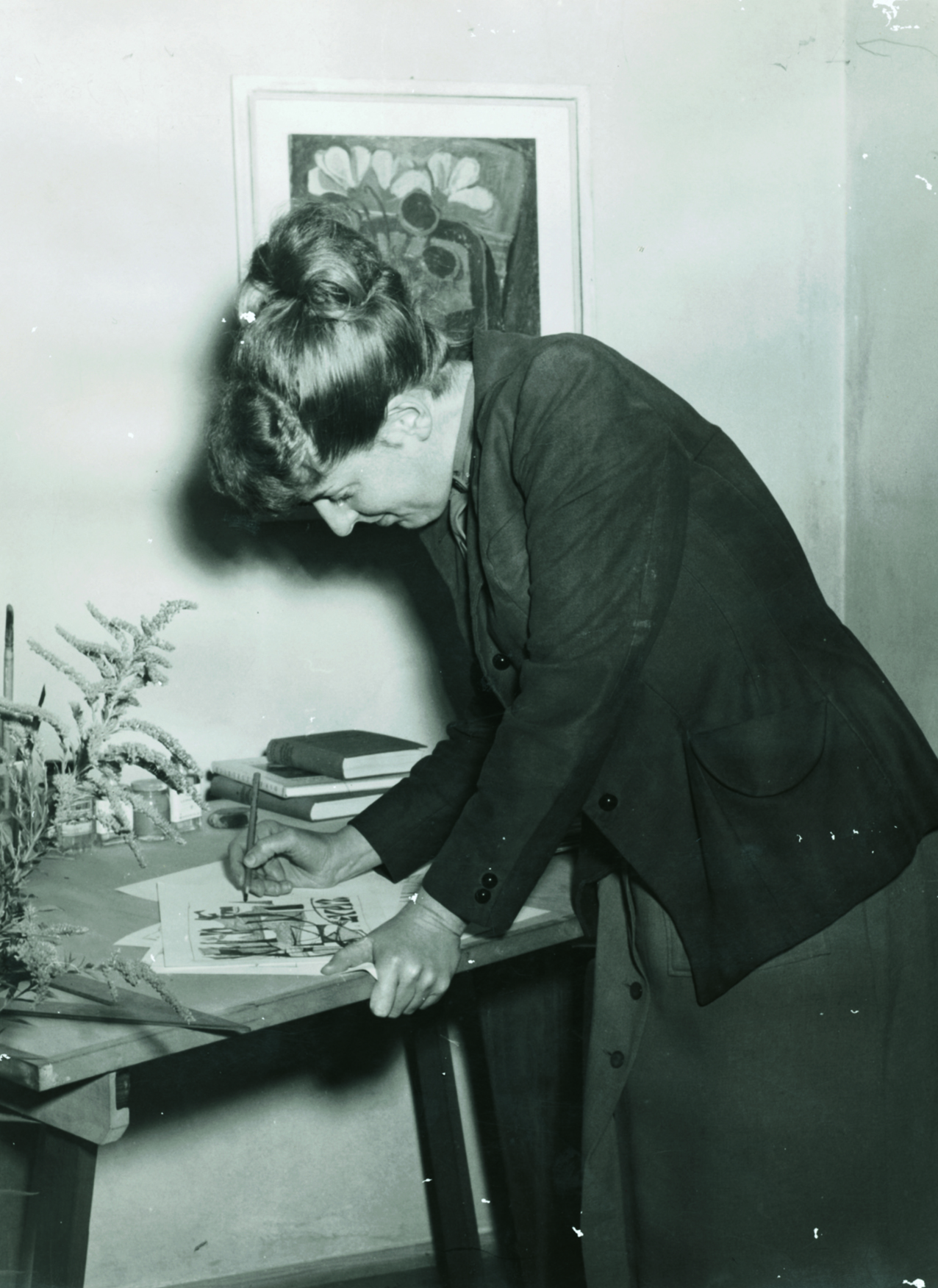 Annemarie Graupner-Baumgartner at work